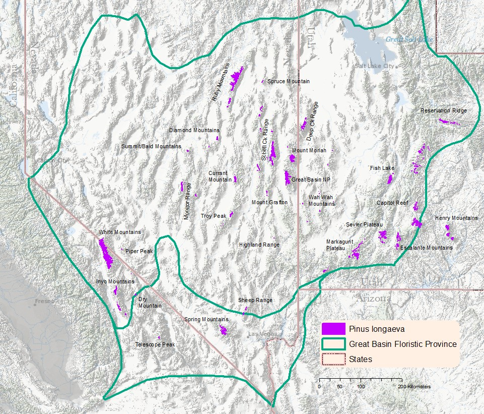 Species distribution map of Great Basin bristlecone pine from ecological niche model. Purple polygon line weights were increased for visualization, resulting in areas on map appearing greater than on the ground.